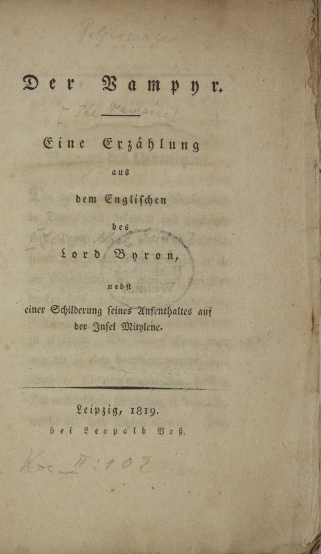 Der Vampyr: Eine Erzählung aus dem Englischen des Lord Byron. Nebst einer Schilderung seines Aufenthaltes in Mytilene Author John Polidori Start this BookTitle Der Vampyr: Eine Erzählung aus dem Englischen des Lord Byron. Nebst einer Schilderung seines Aufenthaltes in MytilenePublisher VossLanguage GermanPublication date 1819publication_date QS:P577,+1819-00-00T00:00:00Z/9Place of publication LeipzigSource HAAB WeimarPermission(Reusing this file) This work is in the public domain in its country of origin and other countries and areas where the copyright term is the author's life plus 100 years or fewer. This work is in the public domain in the United States because it was published (or registered with the U.S. Copyright Office) before January 1, 1925. This file has been identified as being free of known restrictions under copyright law, including all related and neighboring rights.